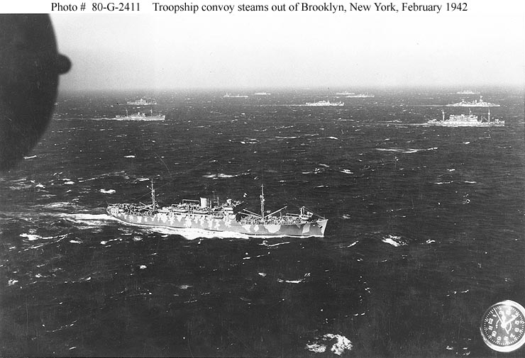 Photo #: 80-G-2411 Convoy out of Brooklyn, New York, 19 February 1942. USS Neville (AP-16), other transports, an oiler and a battleship. Probably the convoy bound to Belfast. Photographed from a Naval Air Station Lakehurst, New Jersey, blimp.